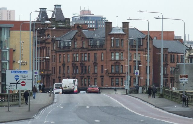 Victoria Bridge Carries Gorbals Street across the Clyde to Bridgegate.